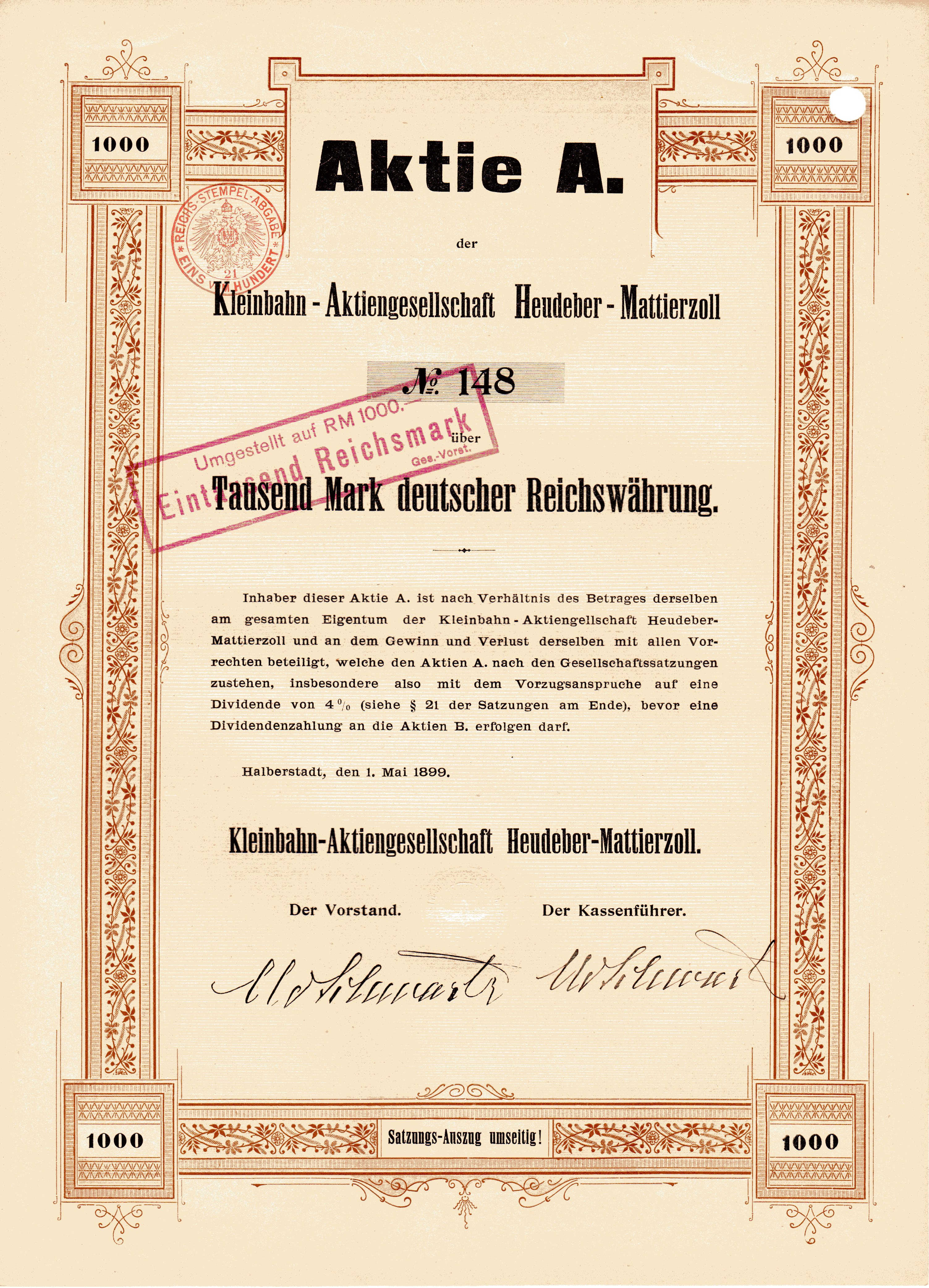 Share of the Kleinbahn-AG Heudeber-Mattierzoll, issued 1. May 1899